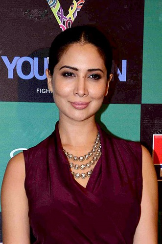 at YOUWECAN launch